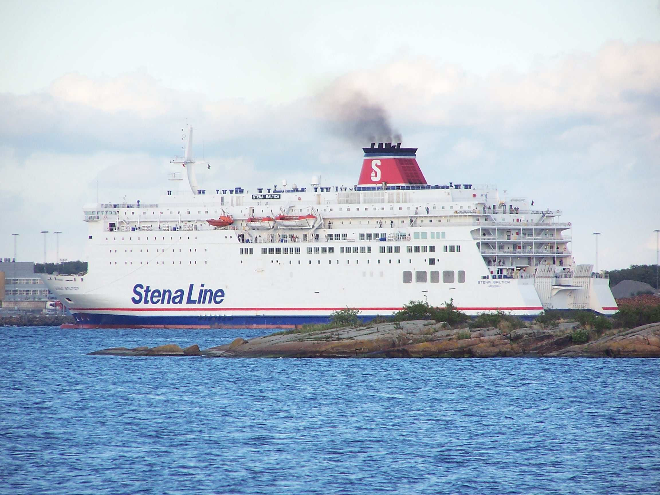 MS Stena Baltica, Stena Line Karlskrona-Gdynia - ferry arrives at Karlskrona.